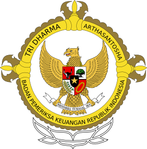 Insignia of Badan Pemeriksa Keuangan (Financial Investigation Bureau. This image is an unofficial reproduction.